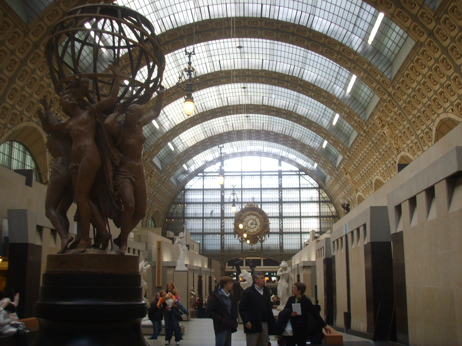 Museo_d'Orsay_interno